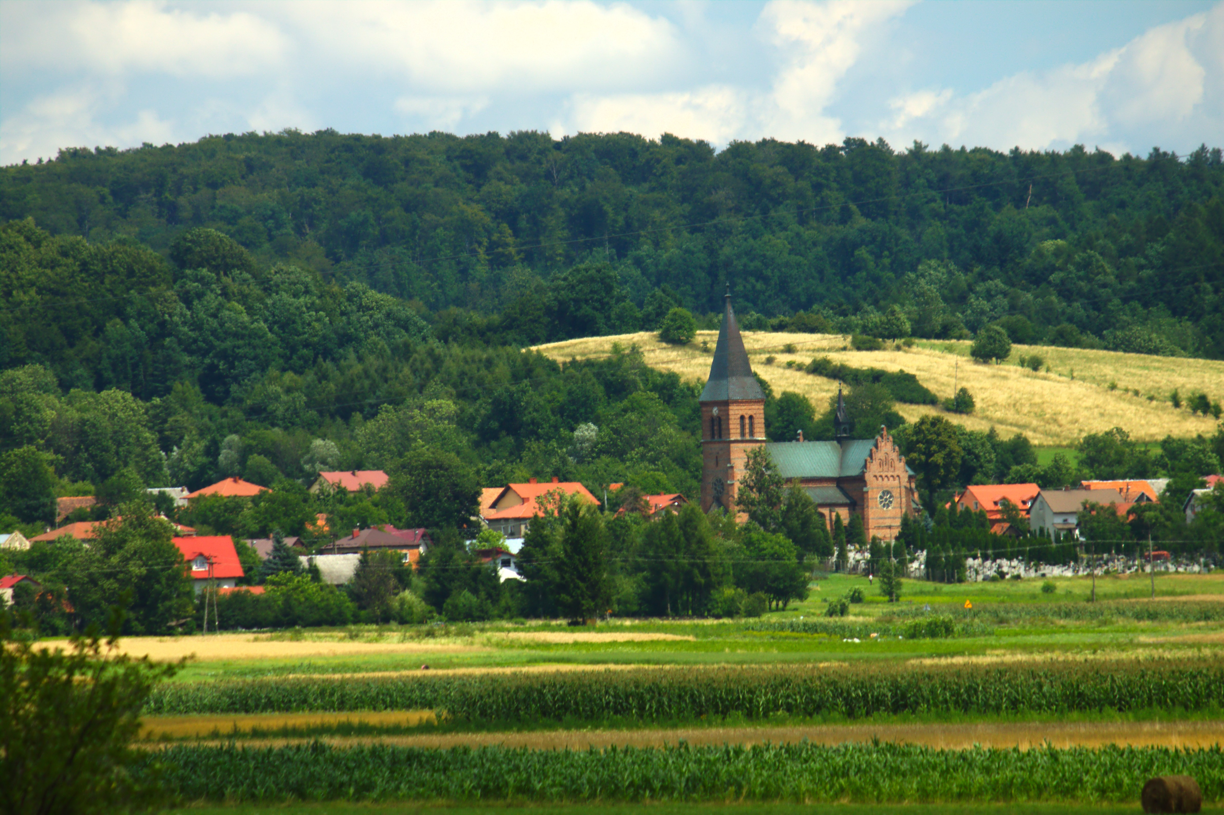 The church in Trześniów seen from the village of Bzianka, Podkarpackie voivodeship, Poland This photo of Subcarpathian Voivodeship was taken during Wikiekspedycja 2011 set up by Wikimedia Polska Association.You can see all photographs in category Wikiekspedycja 2011. The making of this document was supported by Wikimedia Polska.